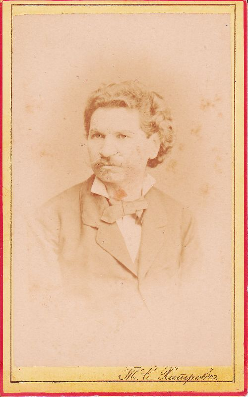 Toma Hitrov.